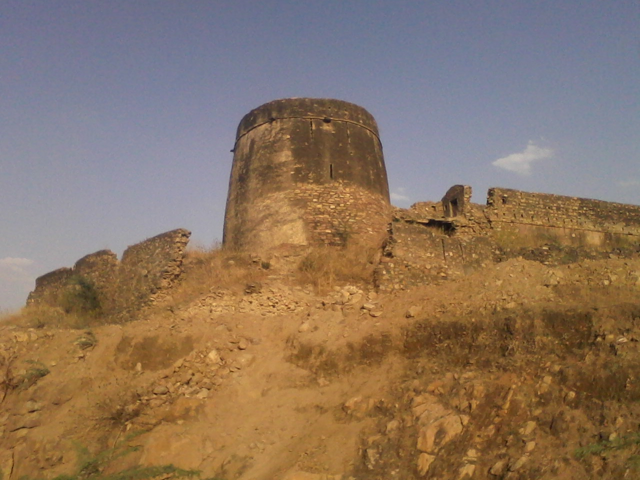 rani rudramma devi fort